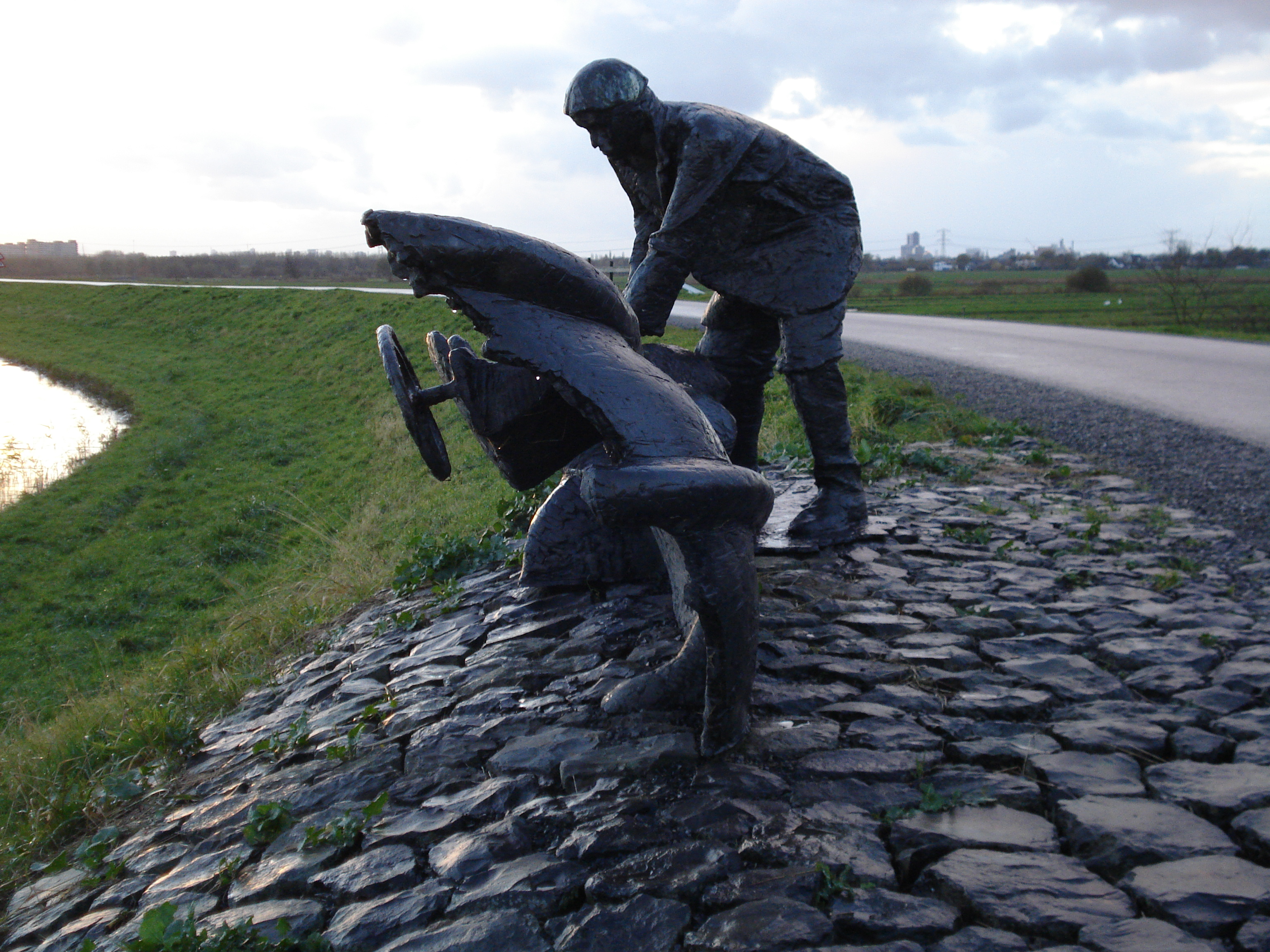 Memorial Watersnoodramp 1953 Holl. IJssel, The Netherlands - Place:Groenendijk, Nieuwerkerk aan den IJssel.